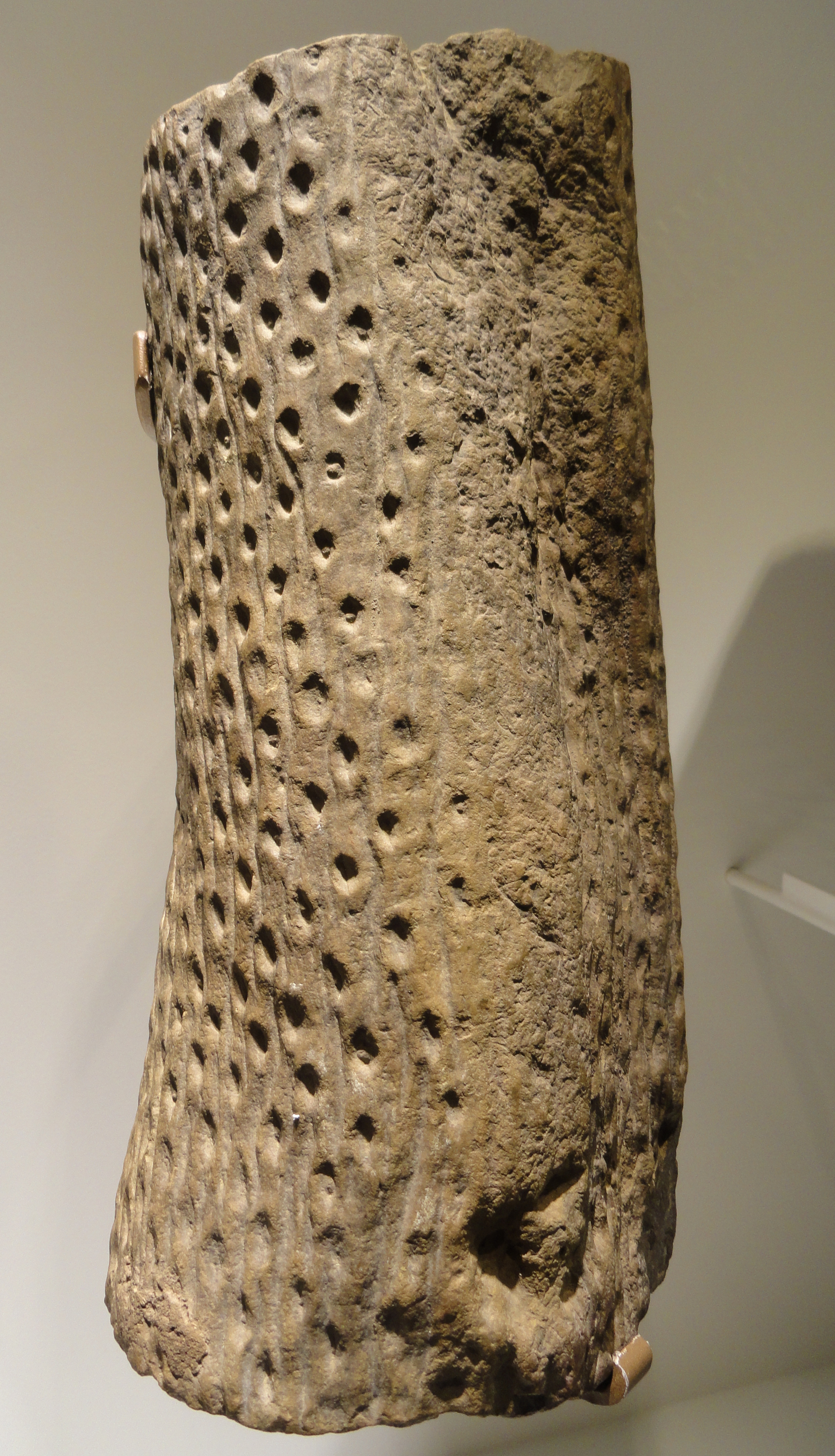 Exhibit in the Houston Museum of Natural Science, Houston, Texas, USA.